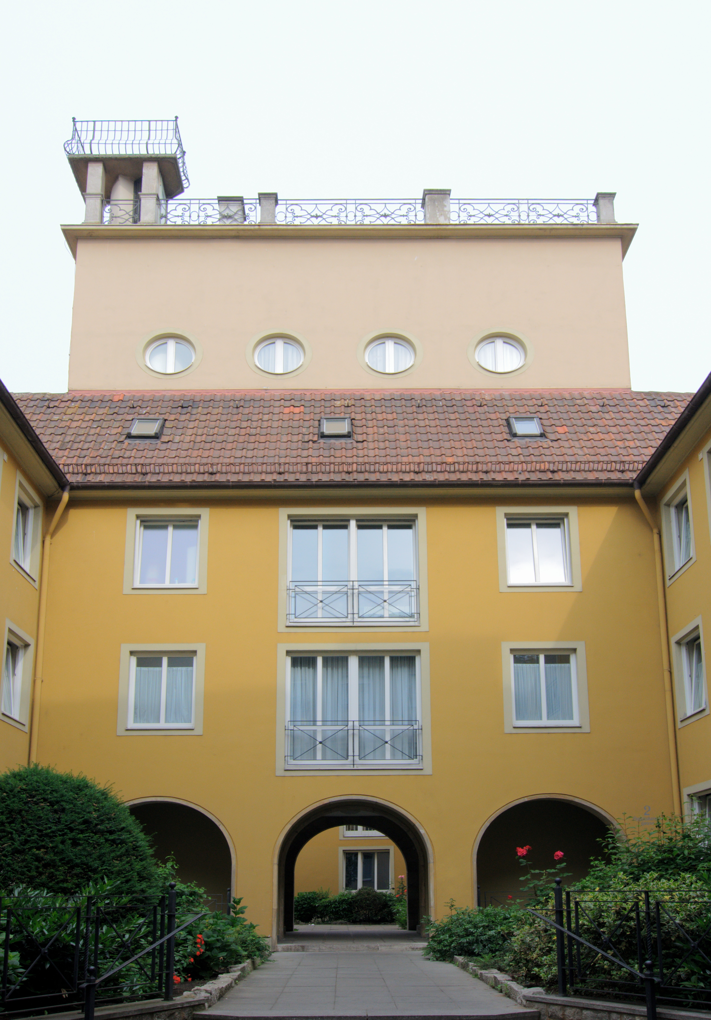 Hof Ober-Frankfurt in Franziskanergasse 2, Würzburg, Balthasar Neumann's former home and office house